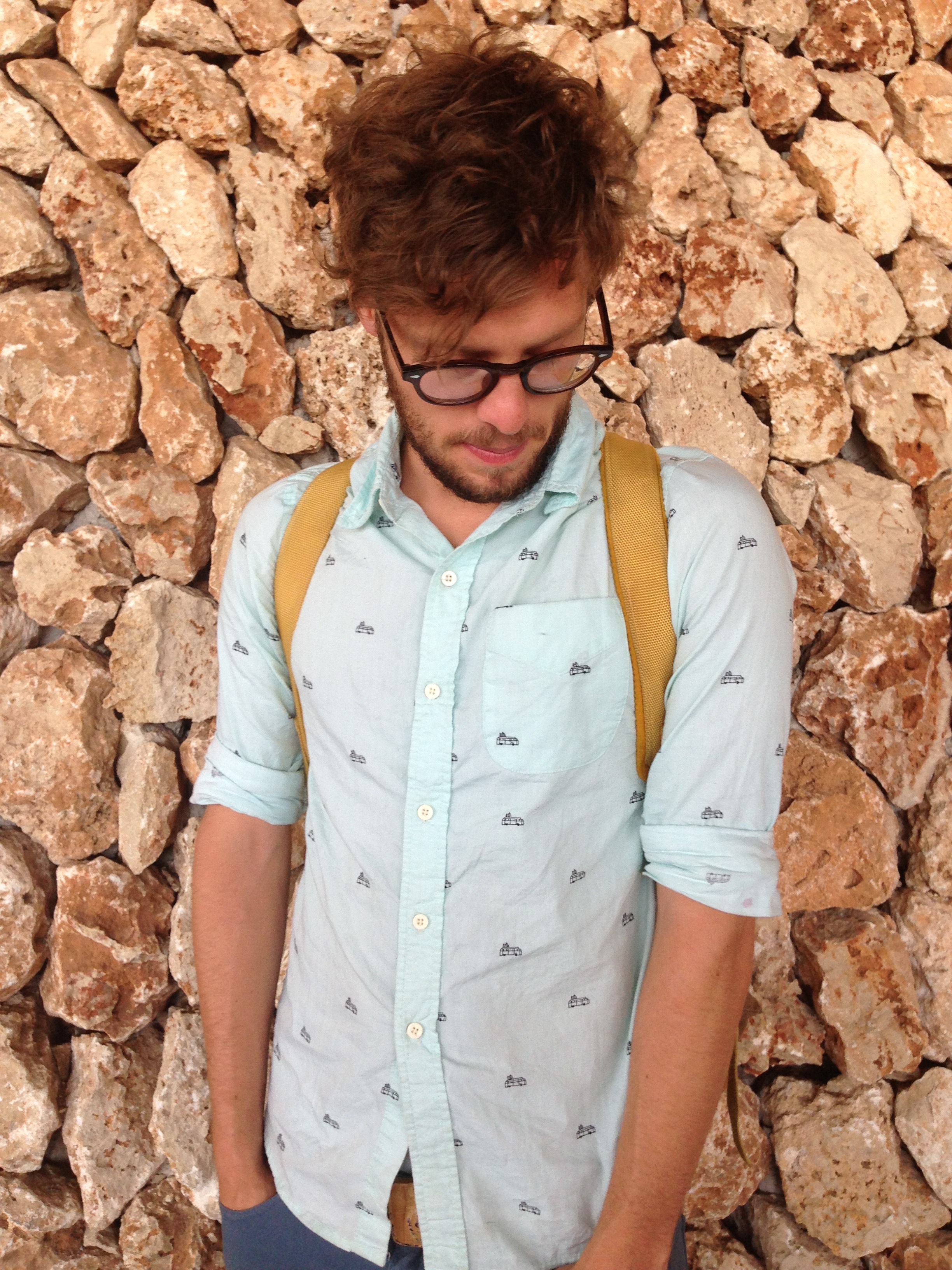 Stelth Ulvang poses for a photo in casual dress near a wall